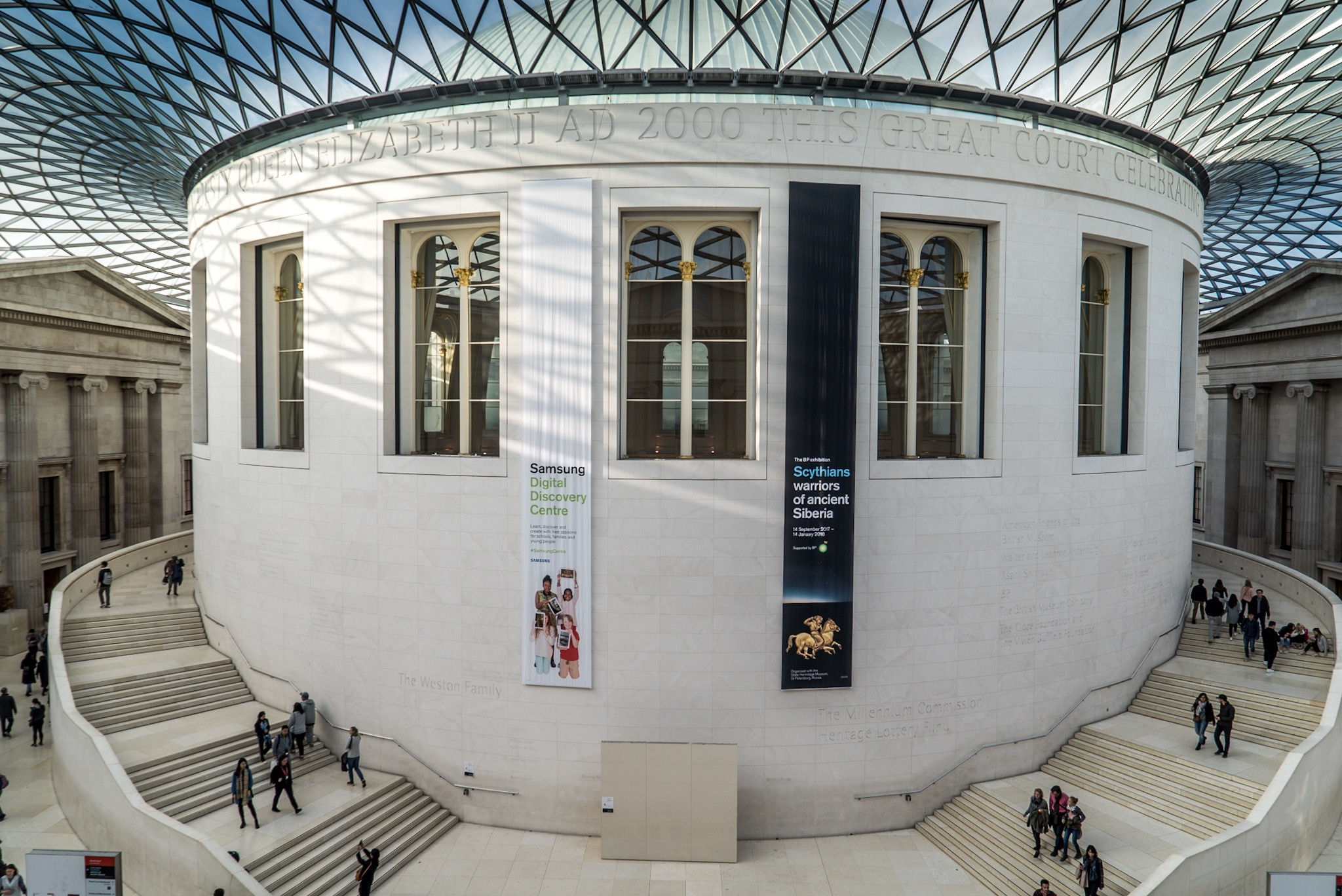 British Museum